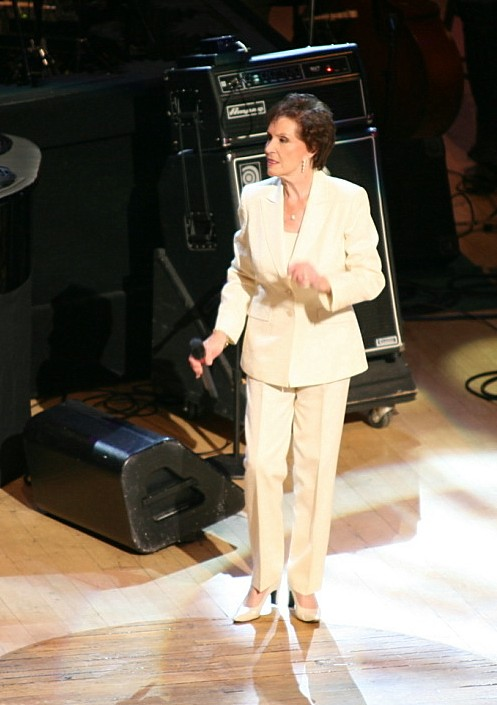 Jan Howard performing at the Grand Ole Opry in 2007.